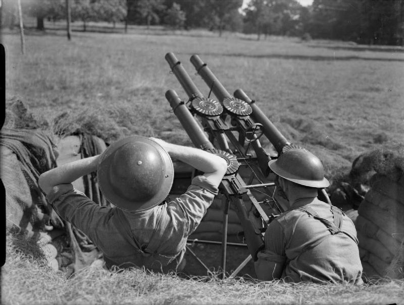 The British Army in the United Kingdom 1939-45 Quadruple Lewis gun on an anti-aircraft mounting, 18 August 1941.